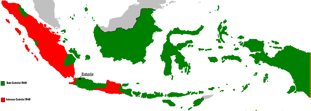 Situation in Indonesia/Dutch East Indies 1949